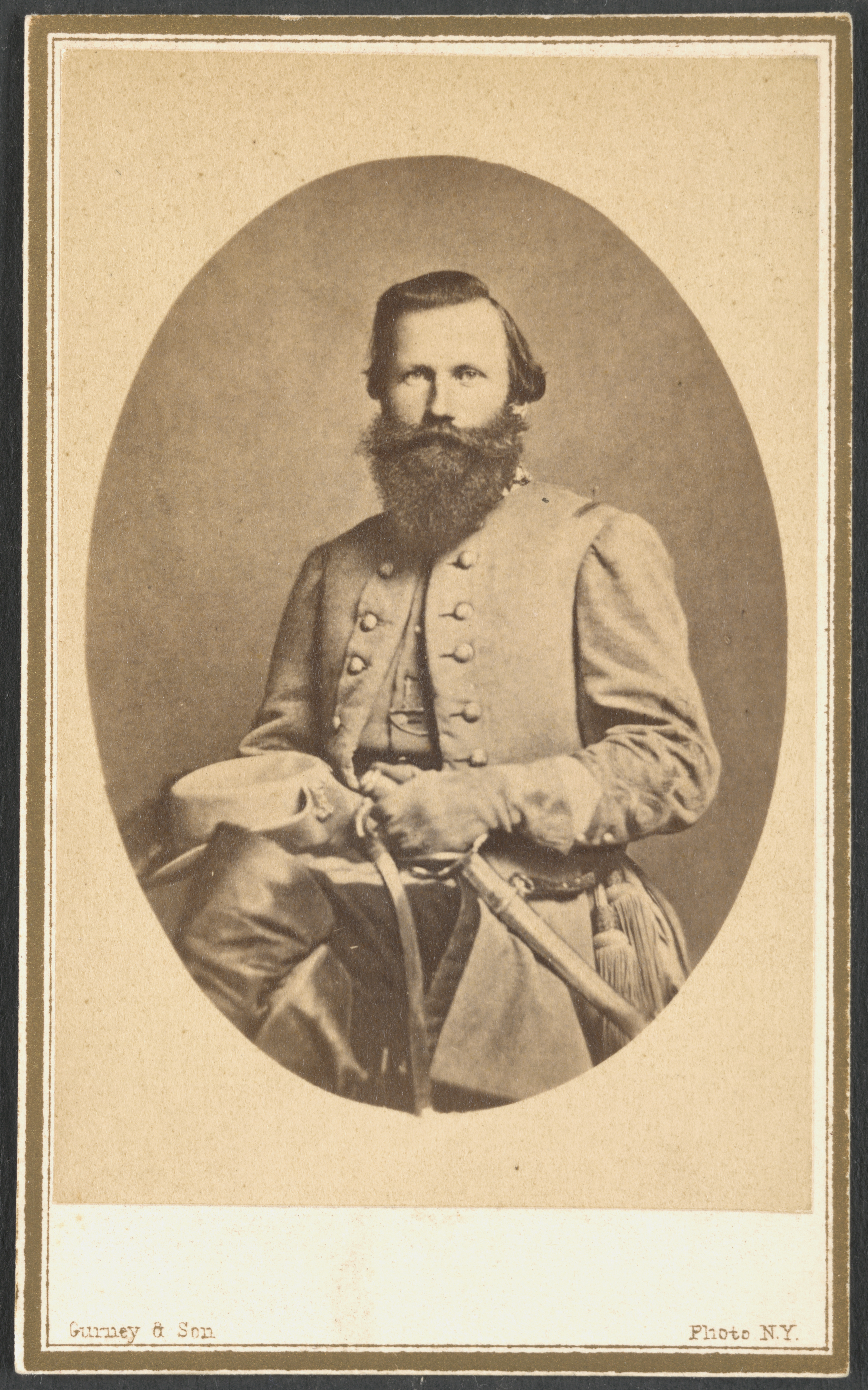 James Ewell Brown Stuart (1833-1864) Confederate States Army general during the American Civil War.